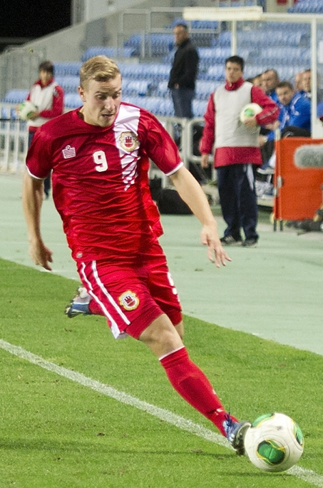 Adam Priestley vs. Slovakia in UEFA debut